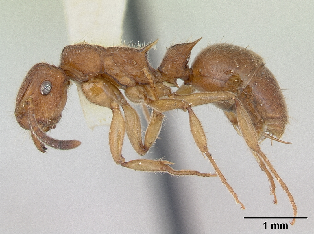 Profile view of ant Acanthoponera minor specimen castype06888.